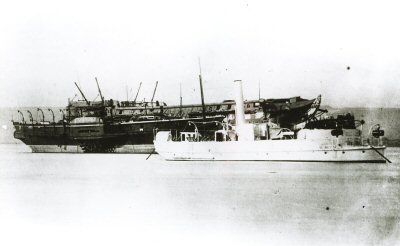 HMS Mastiff, an Ant-class flat-iron (or Rendel) gunboat of the Royal Navy